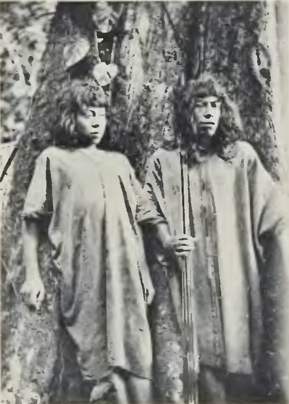 Plate VI no 4 from Researches in the Central Portion of the Usumatsintla Valley, published in 1901. Lake Pethá. Lacantun Indians.